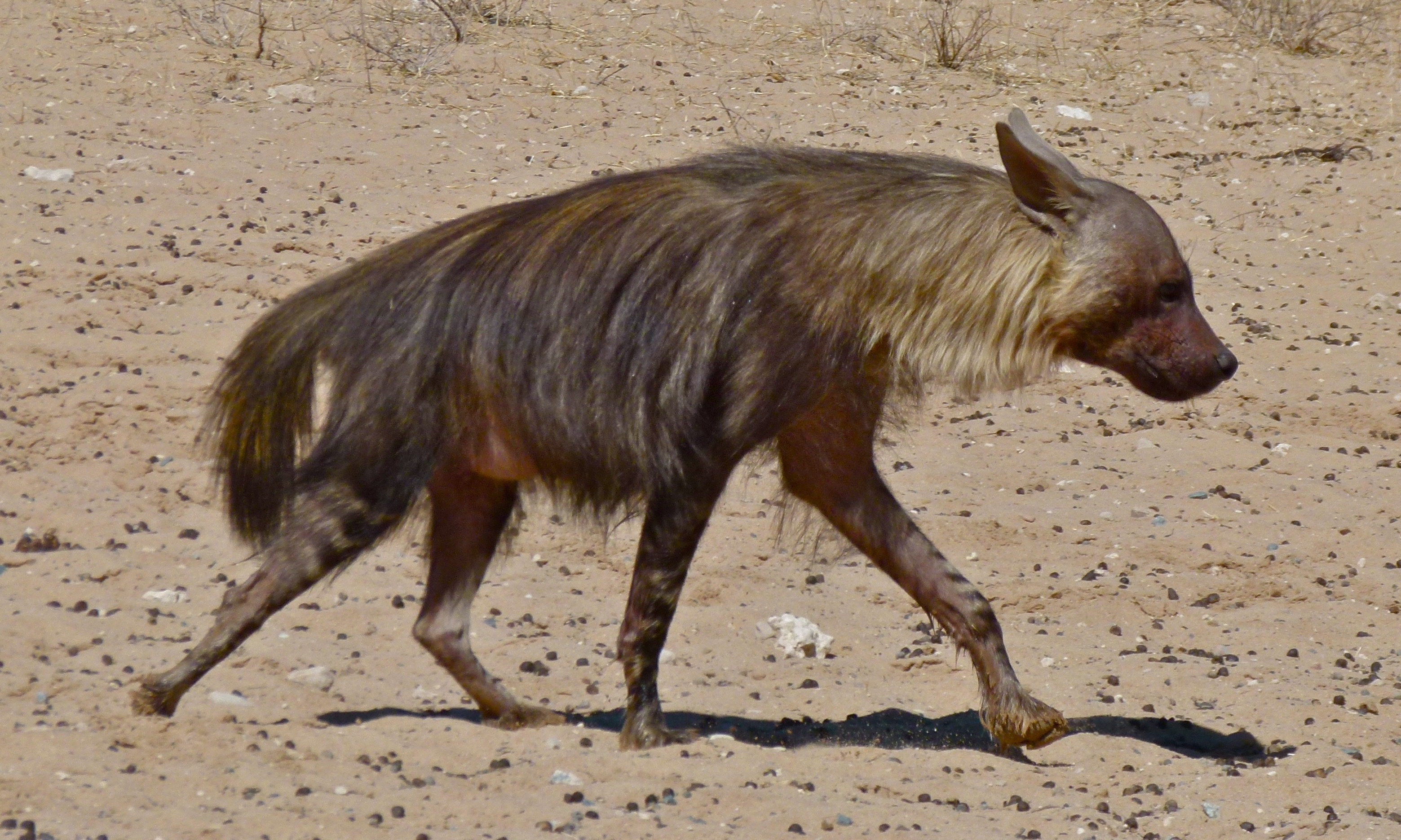 Union's End Waterhole, Kgalagadi Transfrontier Park, SOUTH AFRICA